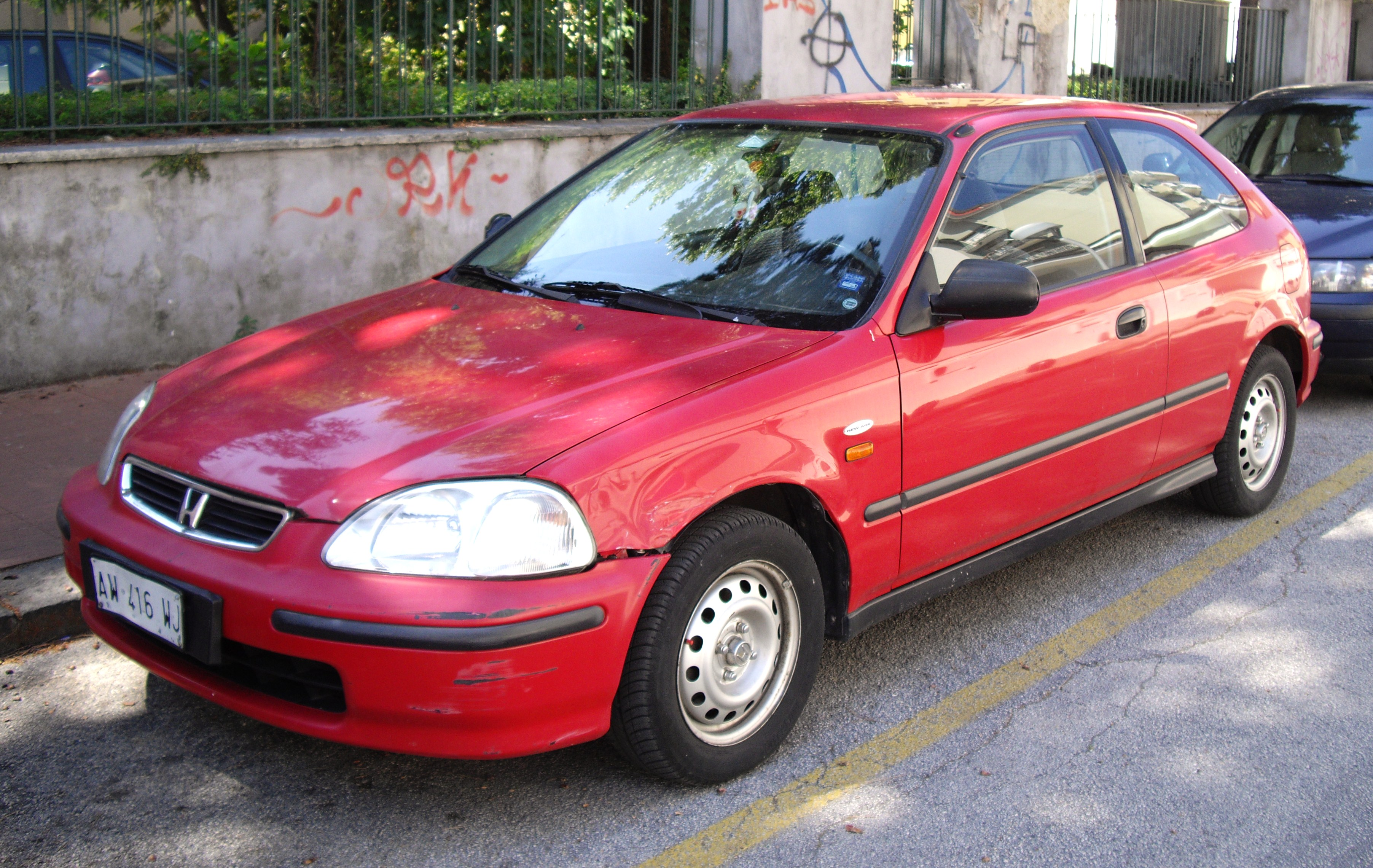 Honda Civic